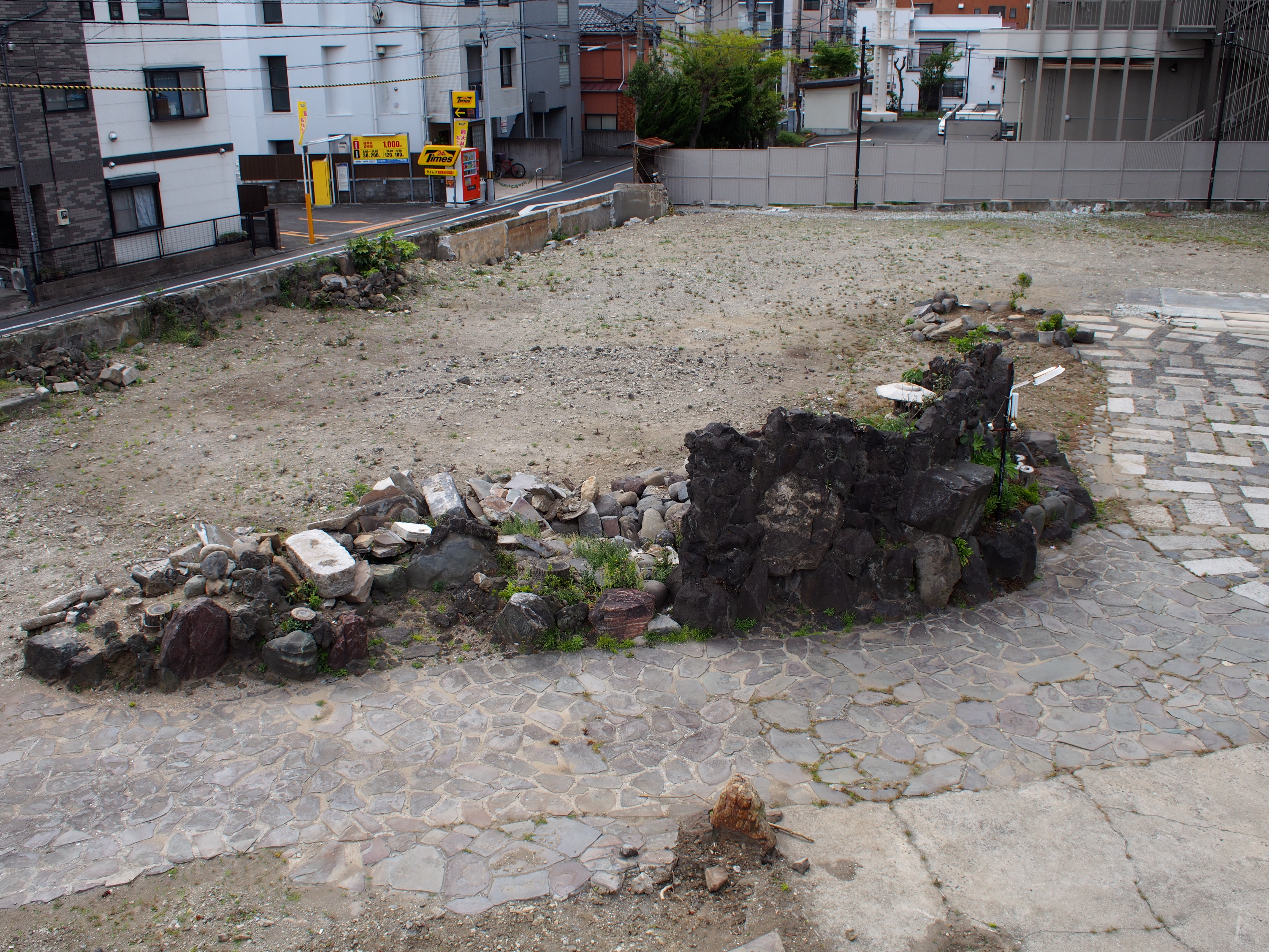 Ryotei komatsu Fire trace